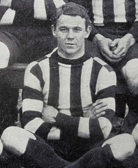 Photograph of Ernie Bailes in 1909.